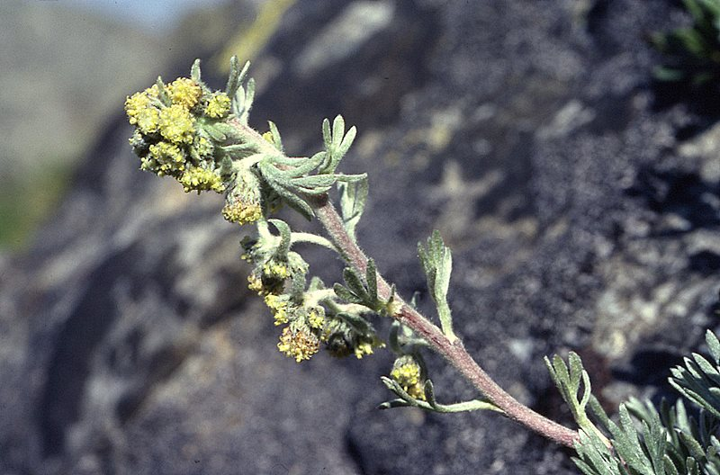 Artemisia eriantha - Flower